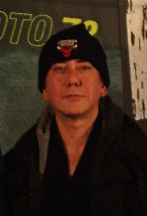 Anthony Wong Chau Sang (cropped)